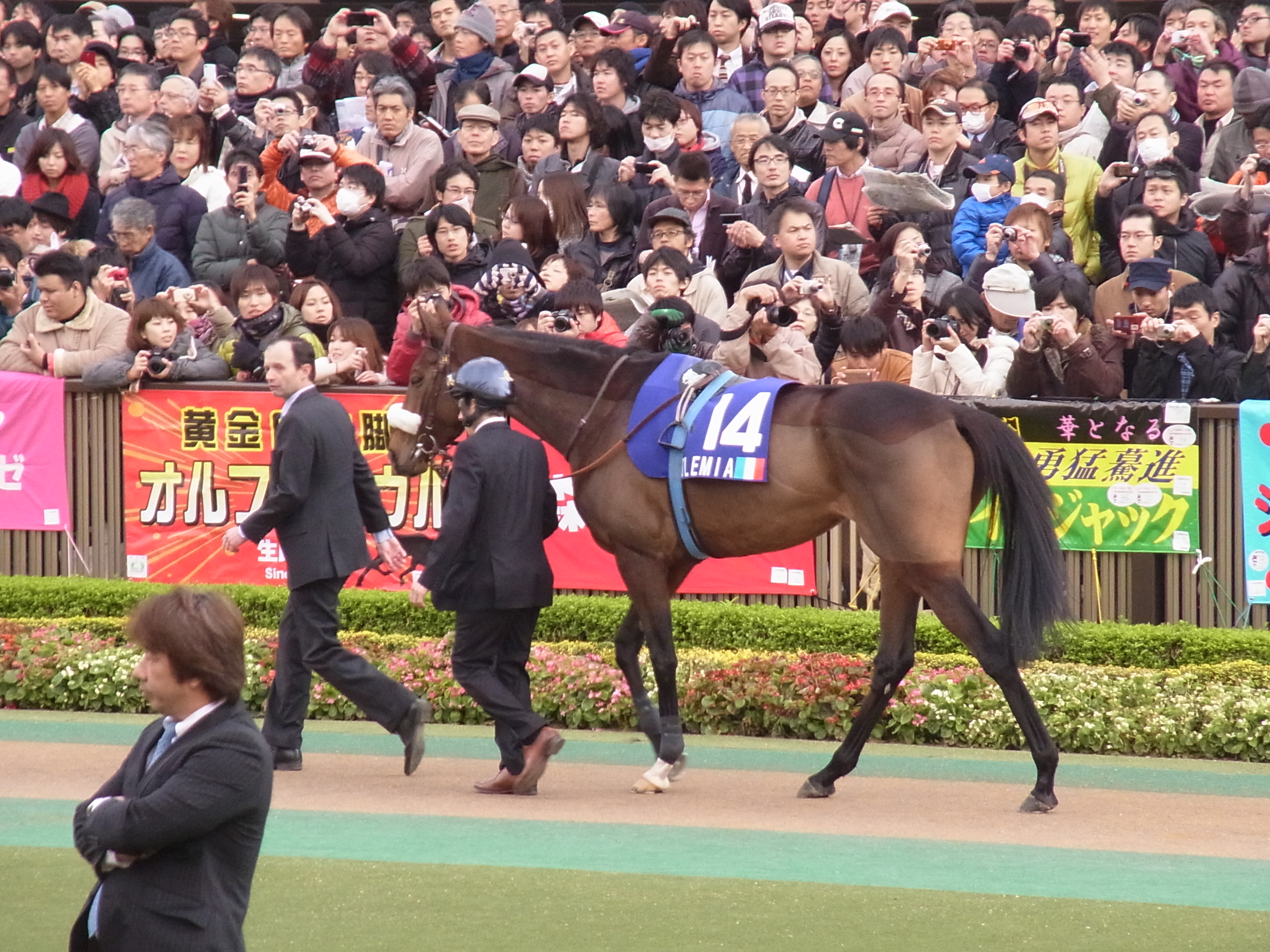 Solemia (2012Japan Cup)